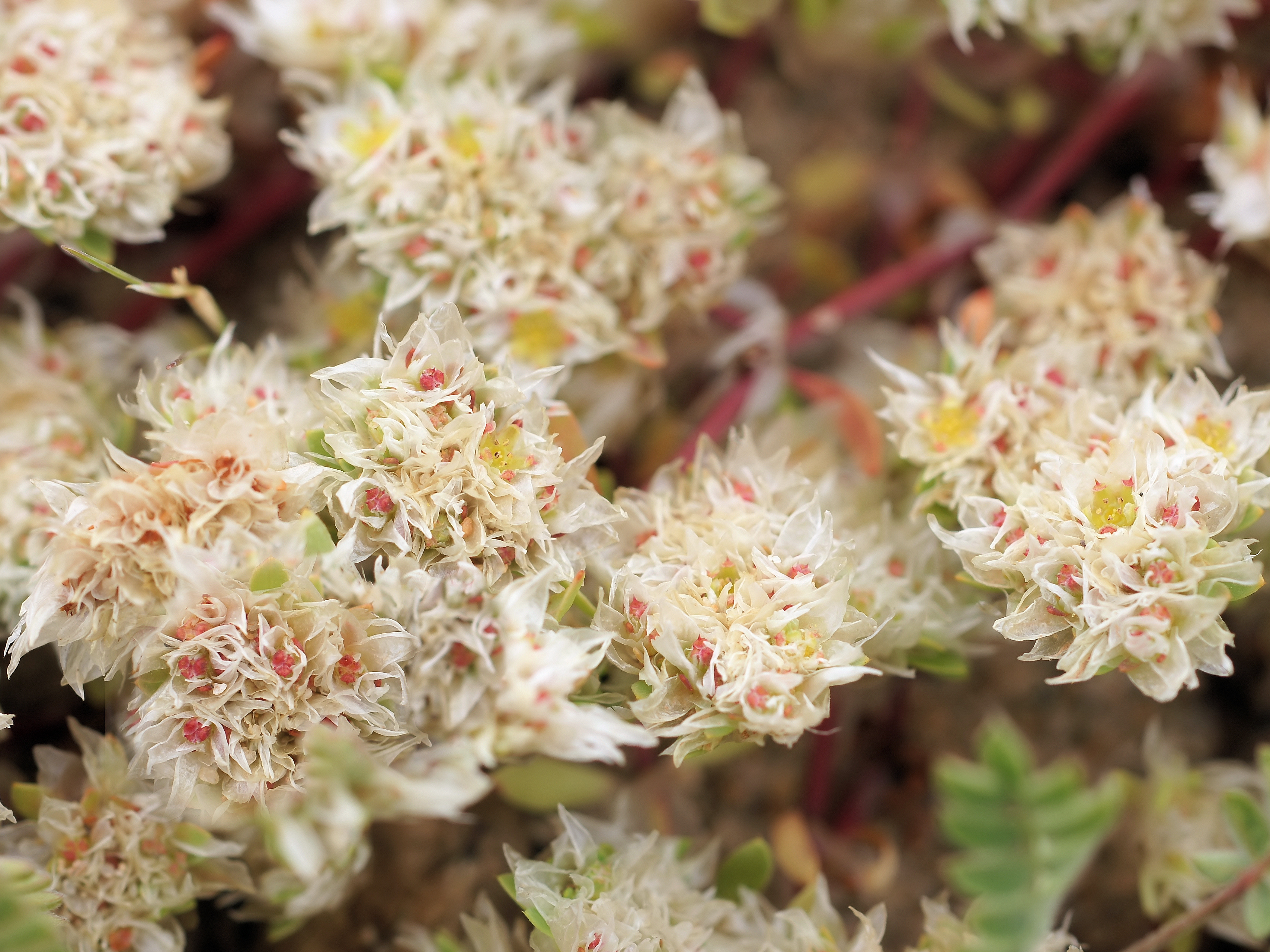 at Torre Grande, Sardinia, Italy.